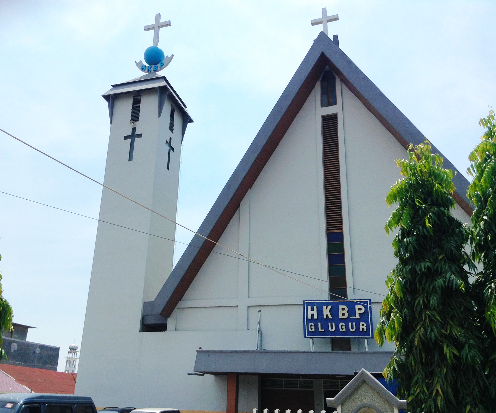 HKBP Glugur, Res. Medan Utara, church in Glugur Darat II, Medan Timur, Medan